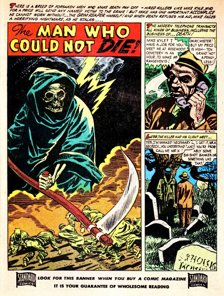 Adventures Into Darkness #10 Page 3